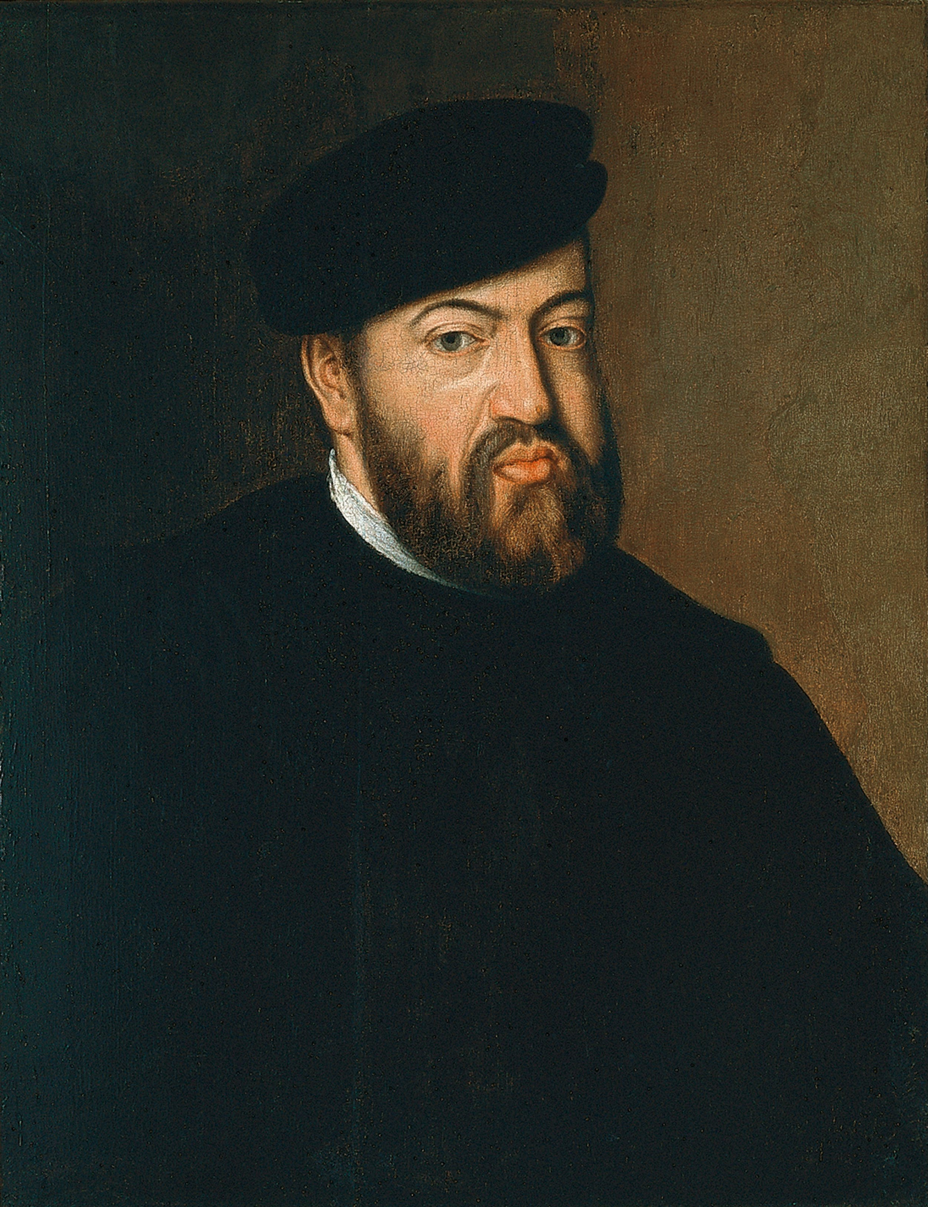 Portrait of King John III of Portugal in the Museu de São Roque (St. Roch Museum). This painting represents John III (1502-1557), King of Portugal between 1521 and 1557. John is portrayed with short hair, thick beard that is going blonde, wearing a black coat and beret. It is a replica of the original portrait by the Flemish Master Anthonis Moro, made in 1522 (Prado Museum, Madrid). The actual portraits are attributed to Cristovão Lopes, son of Gregório Lopes, successor in the role of royal painter from 1550.